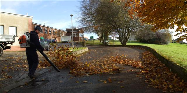 A losing battle against the elements! A workman is attempting to muster the fallen leaves at the grounds of Tyrone County Hospital in Omagh with his portable blower.